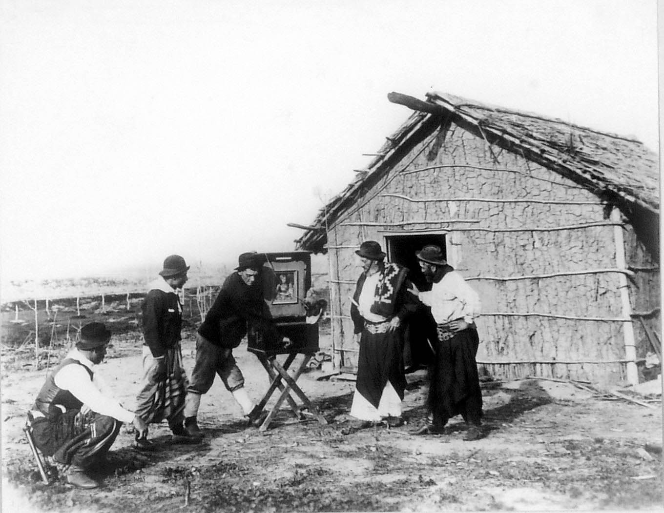 "El fonógrafo" (the phonograph), depicting a group of gaucho at the Argentine pampa. This photo was part of a series for an illustrated edition of El Gaucho Martín Fierro. The photos were taken in the "Estancia San Juan", property of Leonardo Pereyra, the other founding member of Sociedad Fotográfica Argentina de Aficionados.